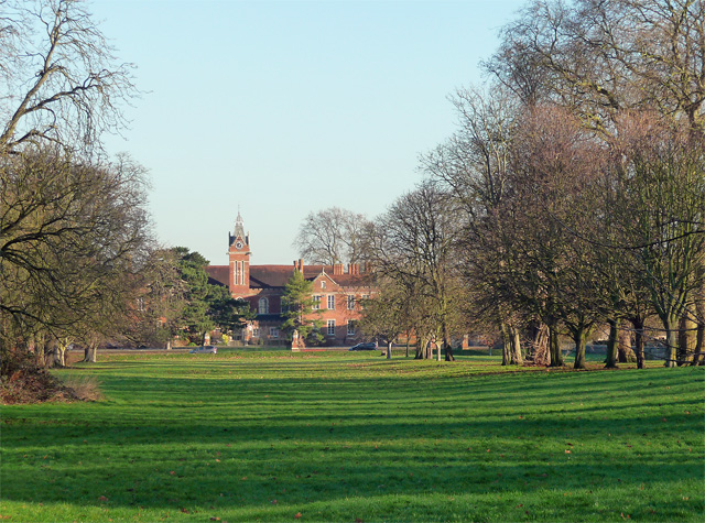 Beddington Park (2)